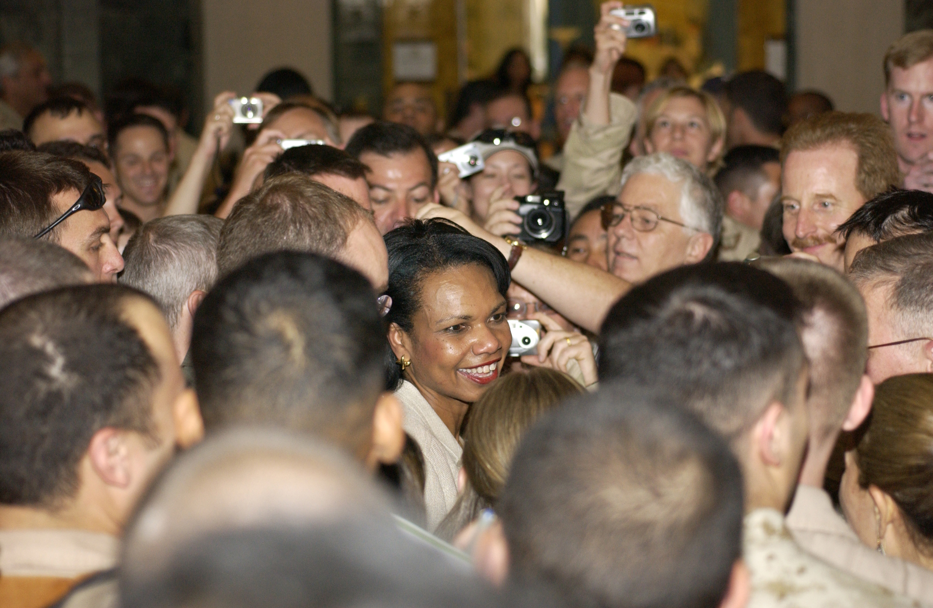 Secretary of State Condoleezza Rice greets U.S. Embassy and other military personnel at the American Embassy in Baghdad, Iraq, on May 15, 2005.